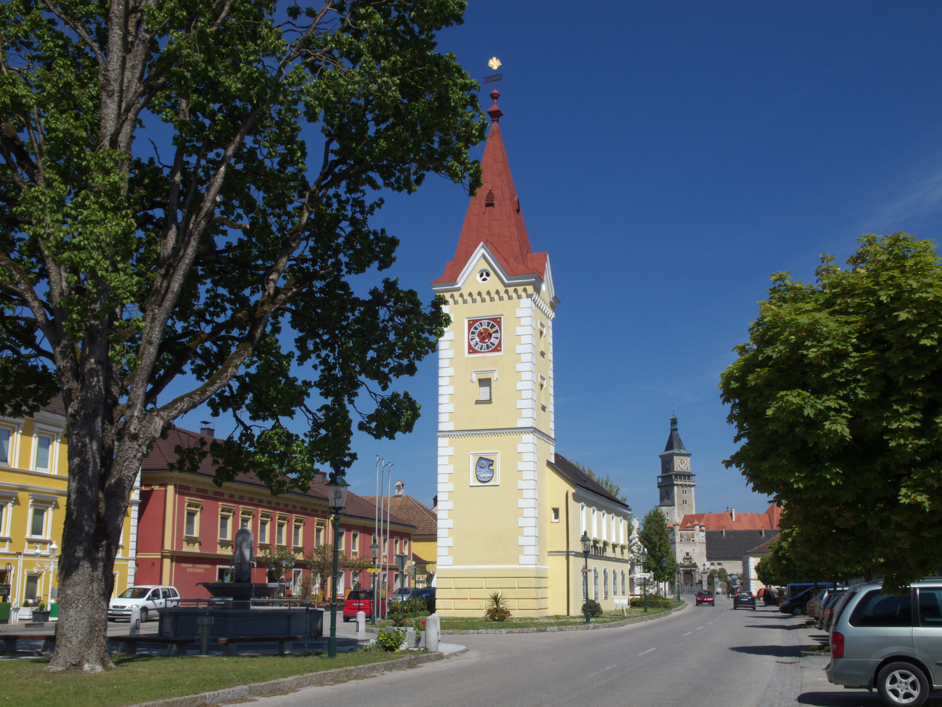 Town hall of Wallsee-Sindelburg on Wallsee main square.